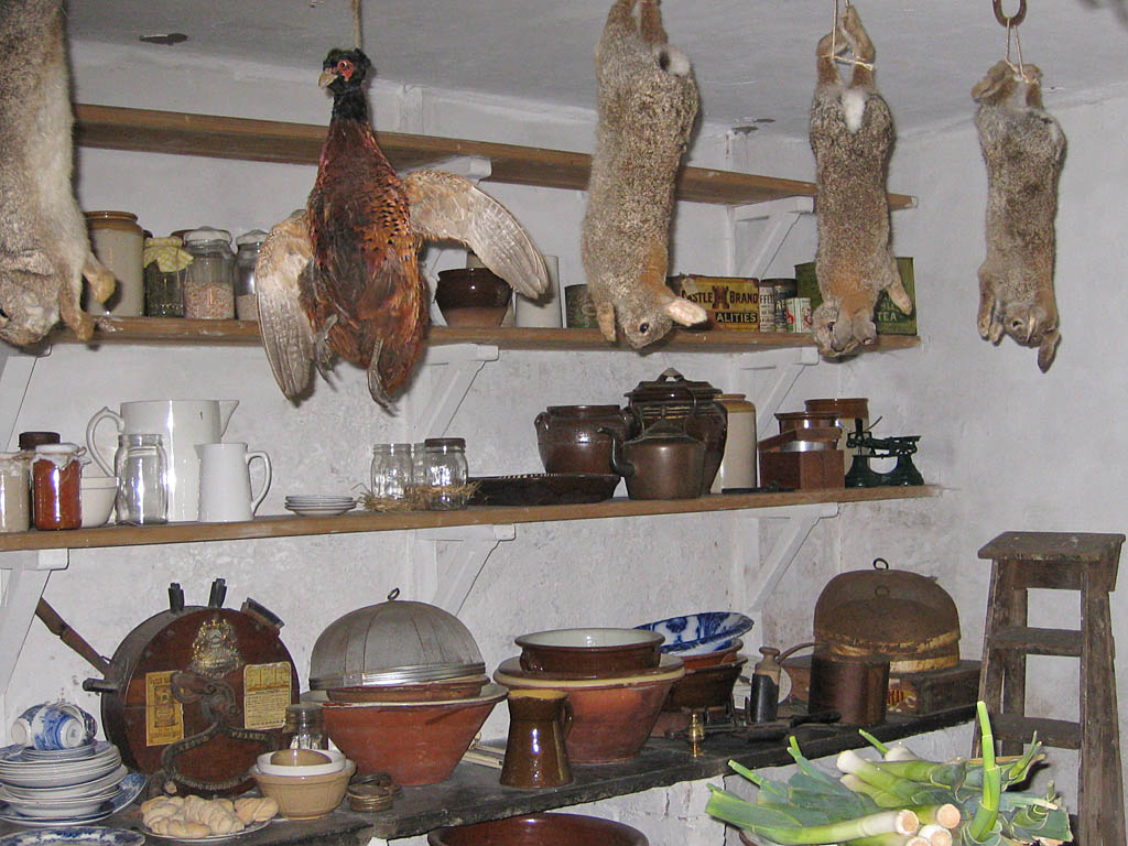 Beamish Museum, County Durham, England. This is the larder in Home Farm.